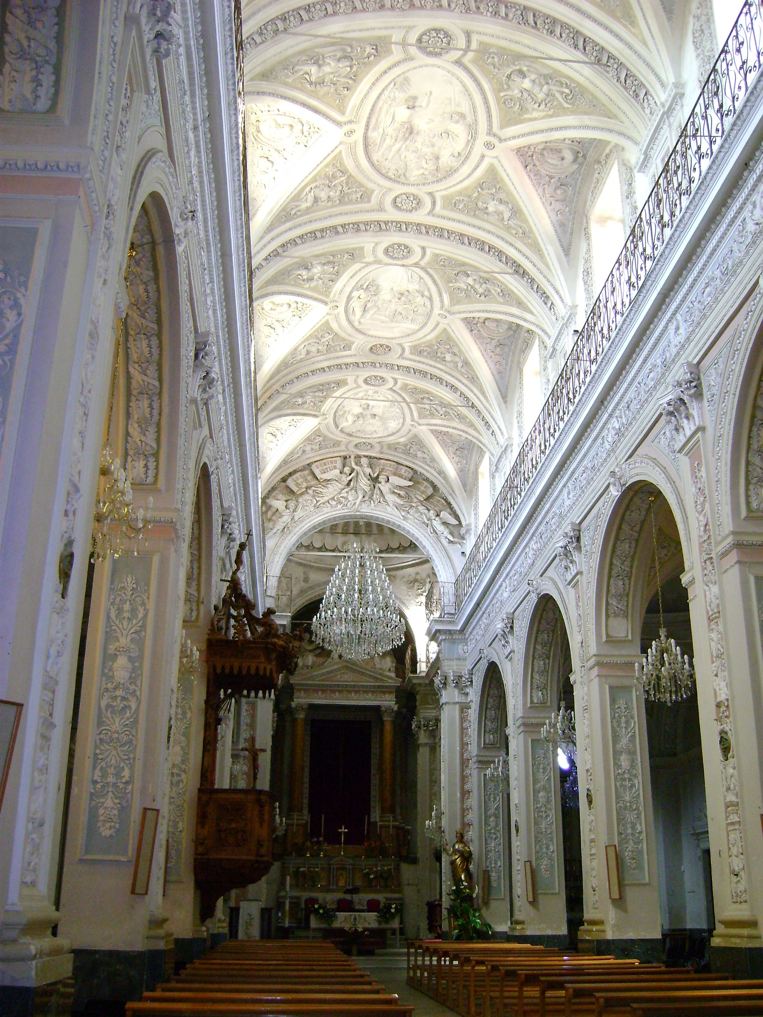 The interior of the church of St. John the Baptist, Monterosso Almo, Ragusa, Sicily